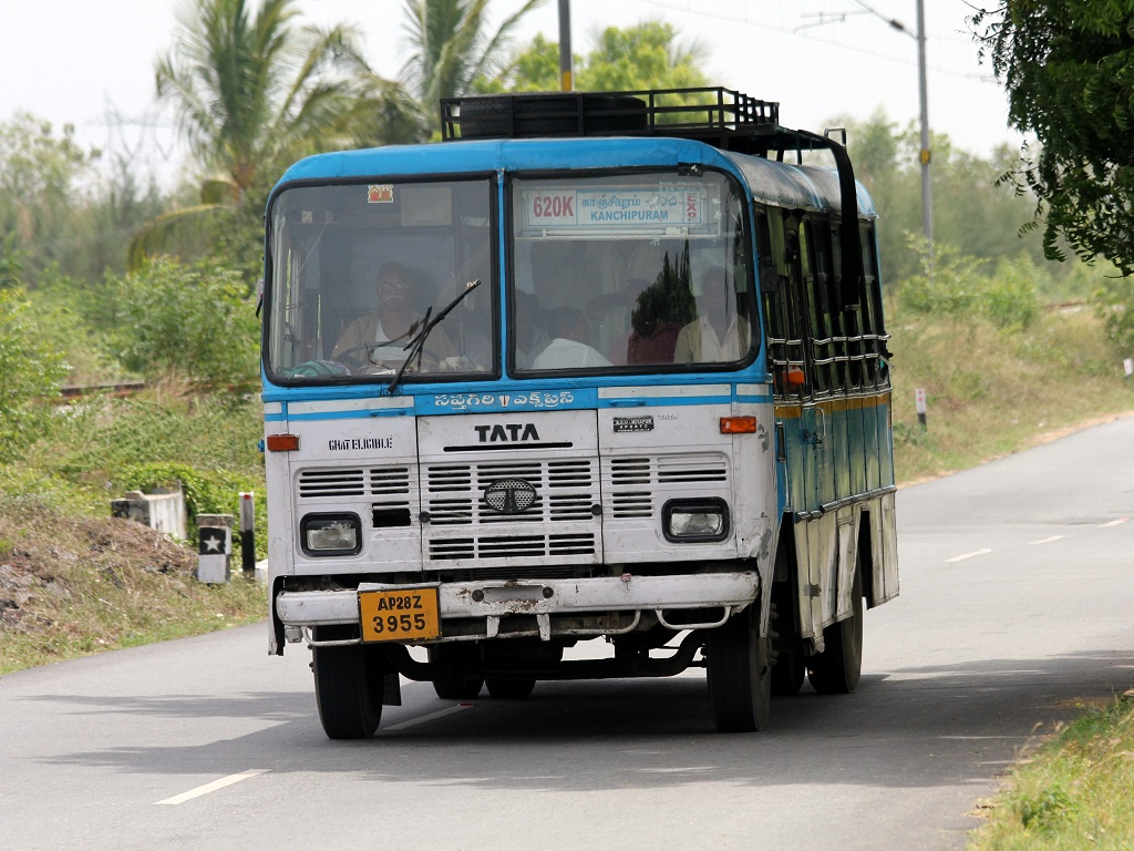 APSRTC bus plying between holy towns of Kanchipuram and Tirupathi.